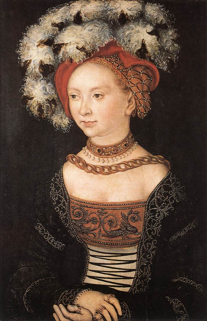 Supposedly a portrait of Sibylle of Saxony, the wife of the Duke Francis I, Duke of Saxe-Lauenburg. For the thesis, there is no evidence.